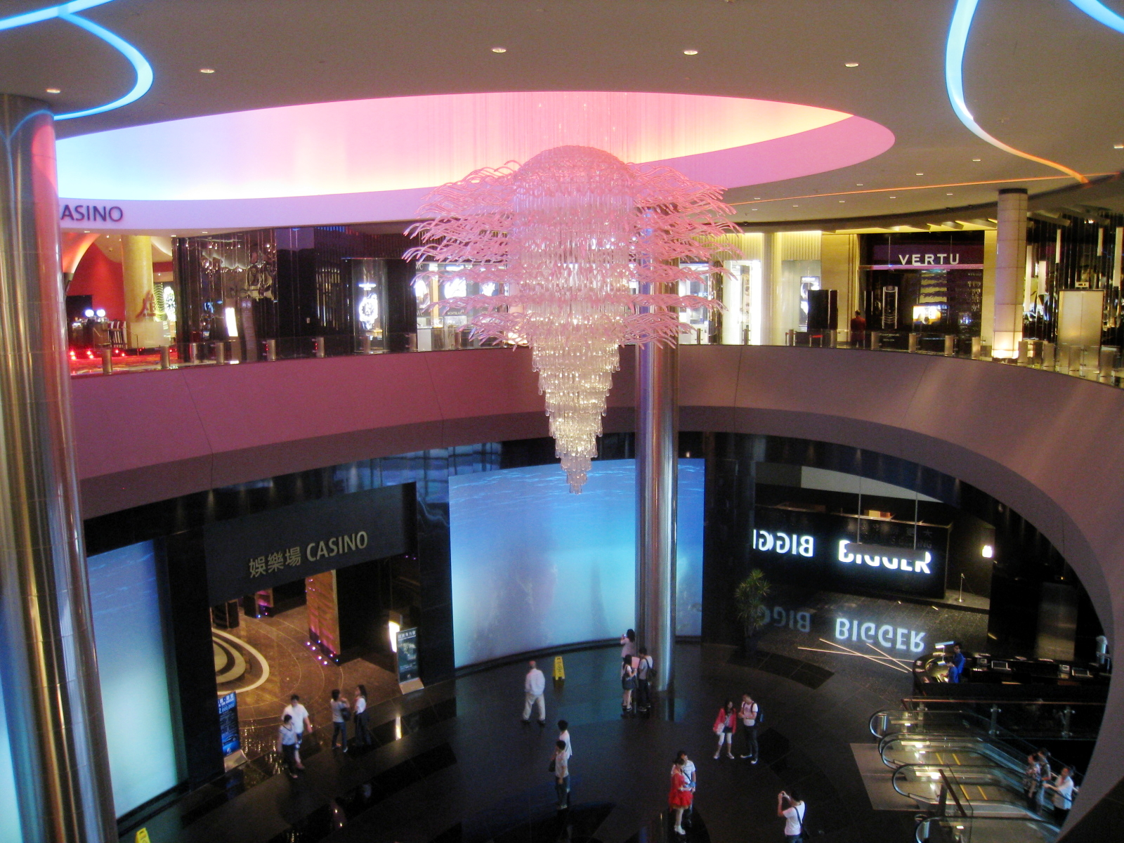 The City of Dreams Main Enterance Lobby